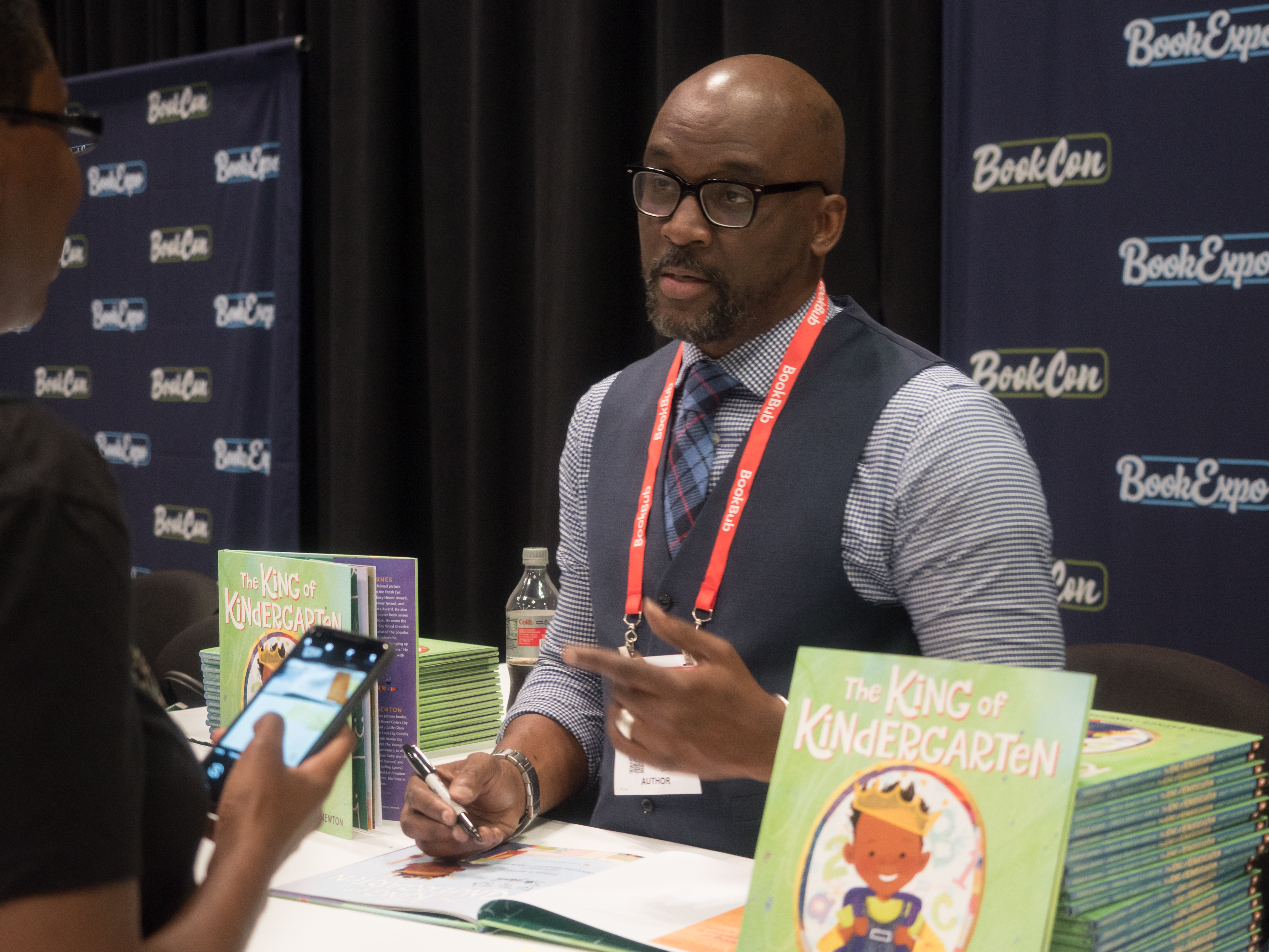 Derrick Barnes at BookExpo at the Javits Center in New York City, May 2019.